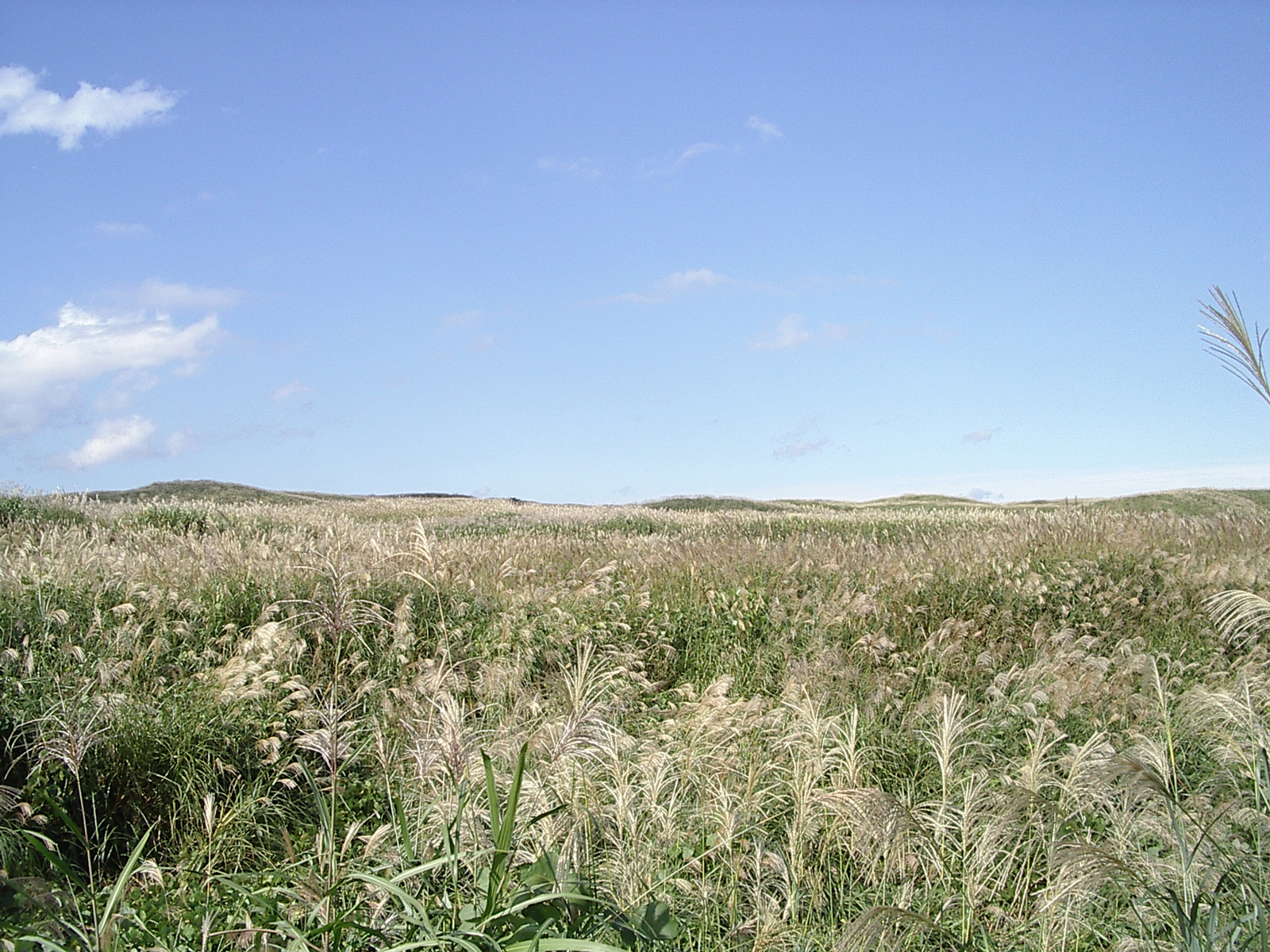 East Fuji Maneuver Area of Japan Ground Self-Defense Force at the foot of Mt. Fuji. The picture is taken by myself from public street in Susono, Shizuoka, Japan.